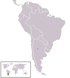 Cordoba's location in the World.